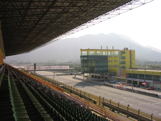 Taken by user user:Ngchikit on 17 Dec 2004.